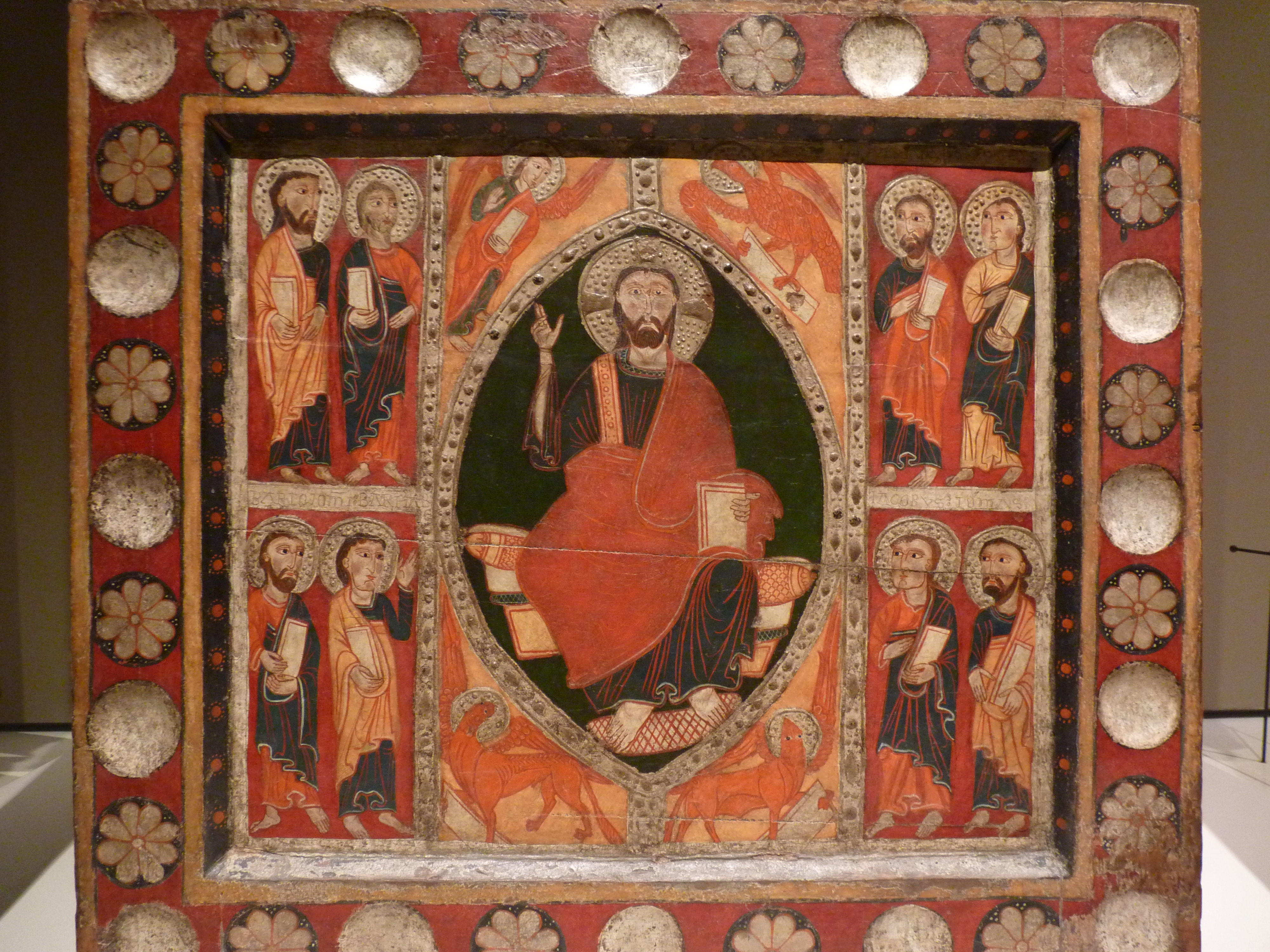 Altar frontal from Sant Romà de Vila